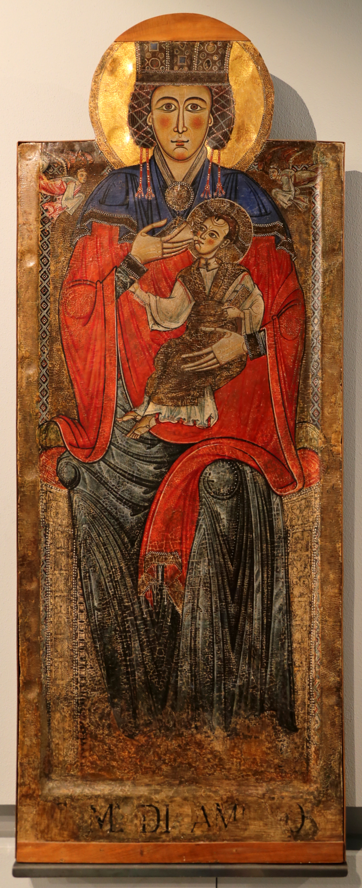 Paintings in the Museo nazionale d'Abruzzo